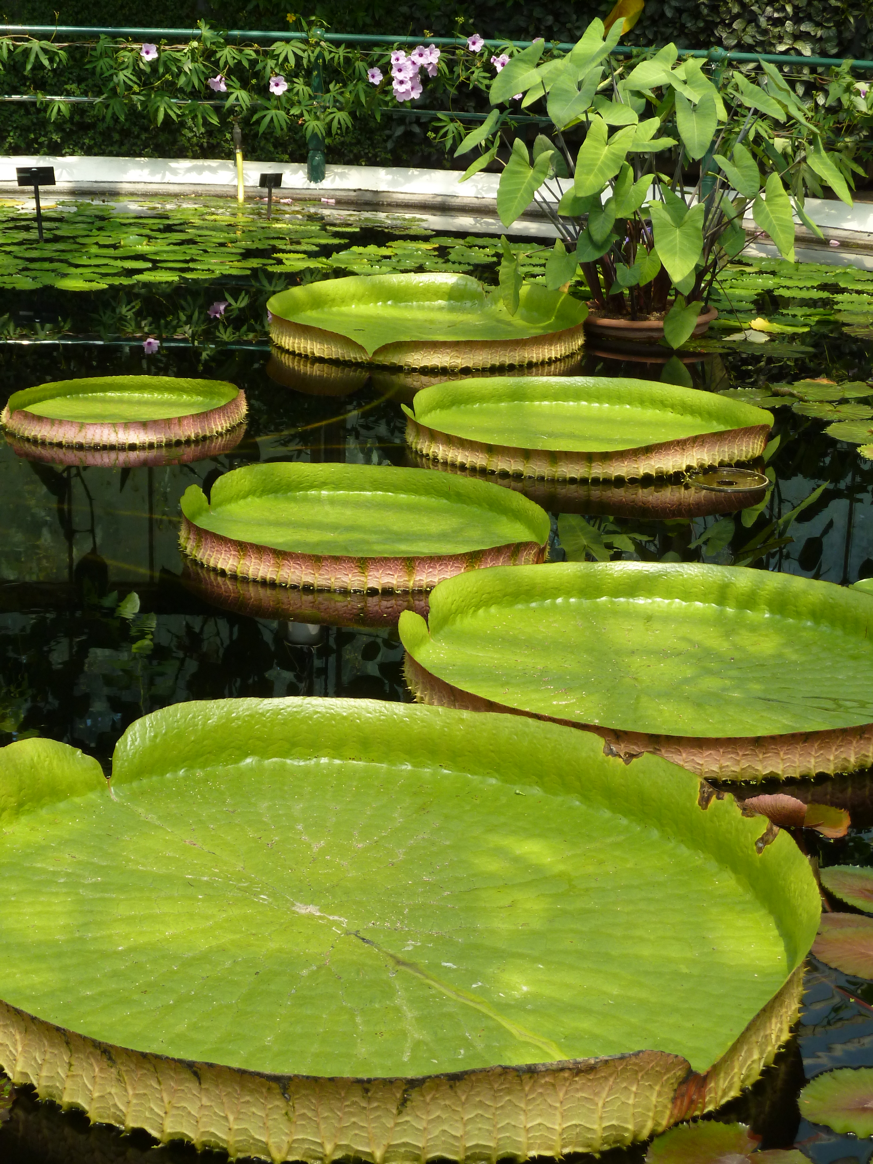 Kew Gardens Water Lily House